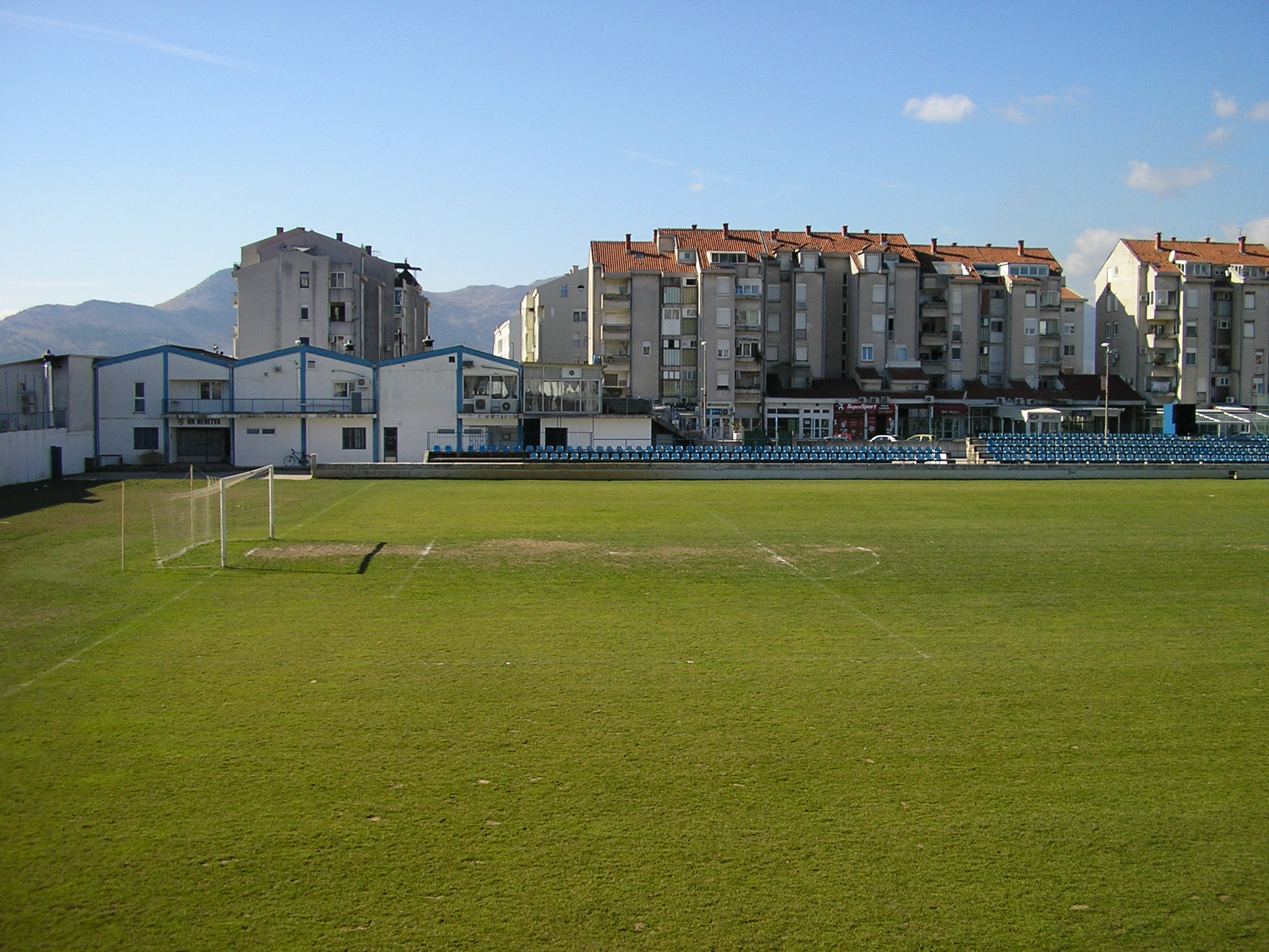 "Iza Vage" stadium